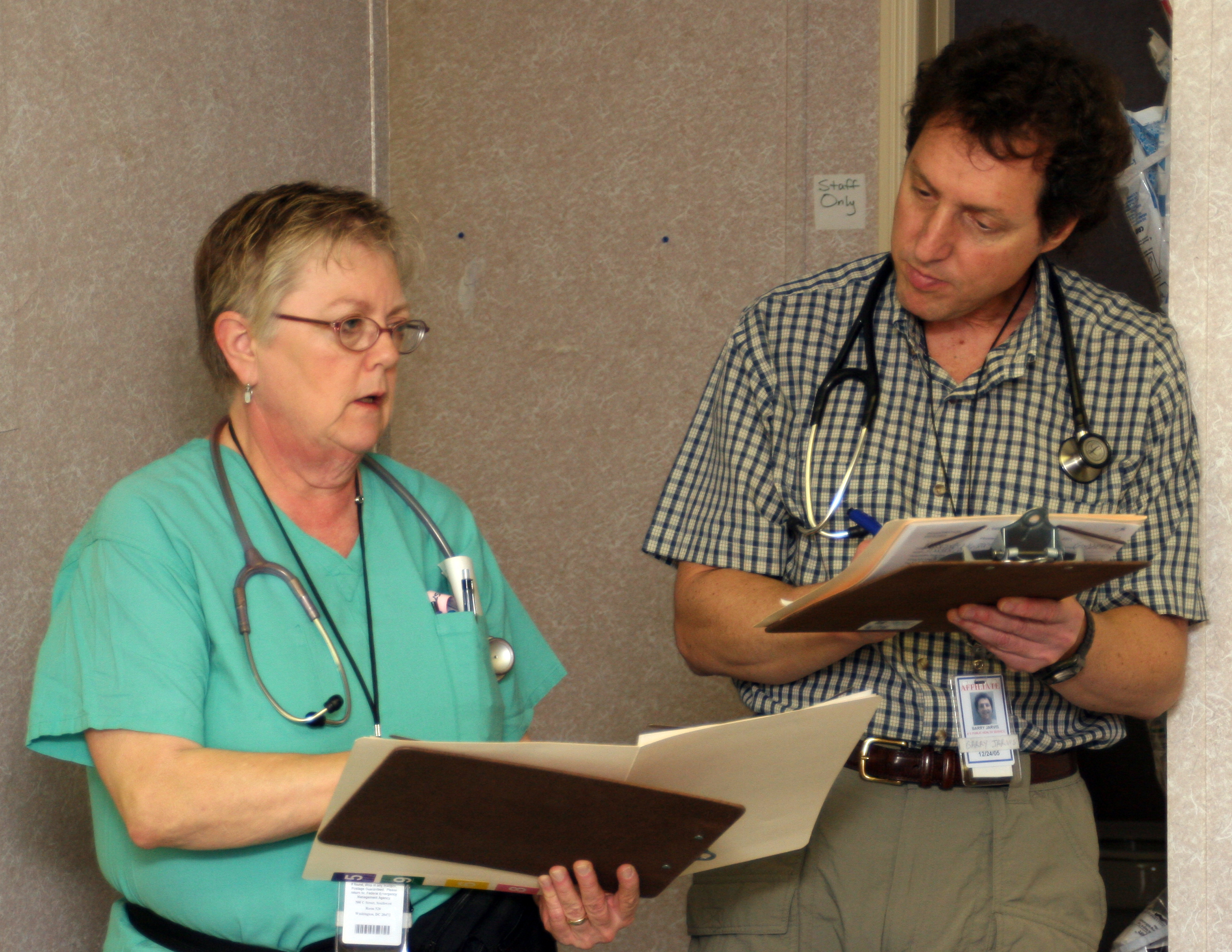 Chalmette, LA, December 16, 2005 - Physicians discuss care options for a patient being treated at the Primary Care Clinic in St. Bernard Parish. Staffing is a combination of parish physicians and personnel from the U.A. Public Health Agency and FEMA Disaster Medical Assistance Team (DMAT). Robert Kaufmann/FEMA